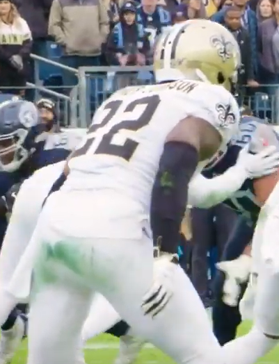 Chauncey Gardner Johnson 2019. Image from video Titans Mic'd Up vs. Saints (Week 16) | Sounds of the Game, ~ 00:20.